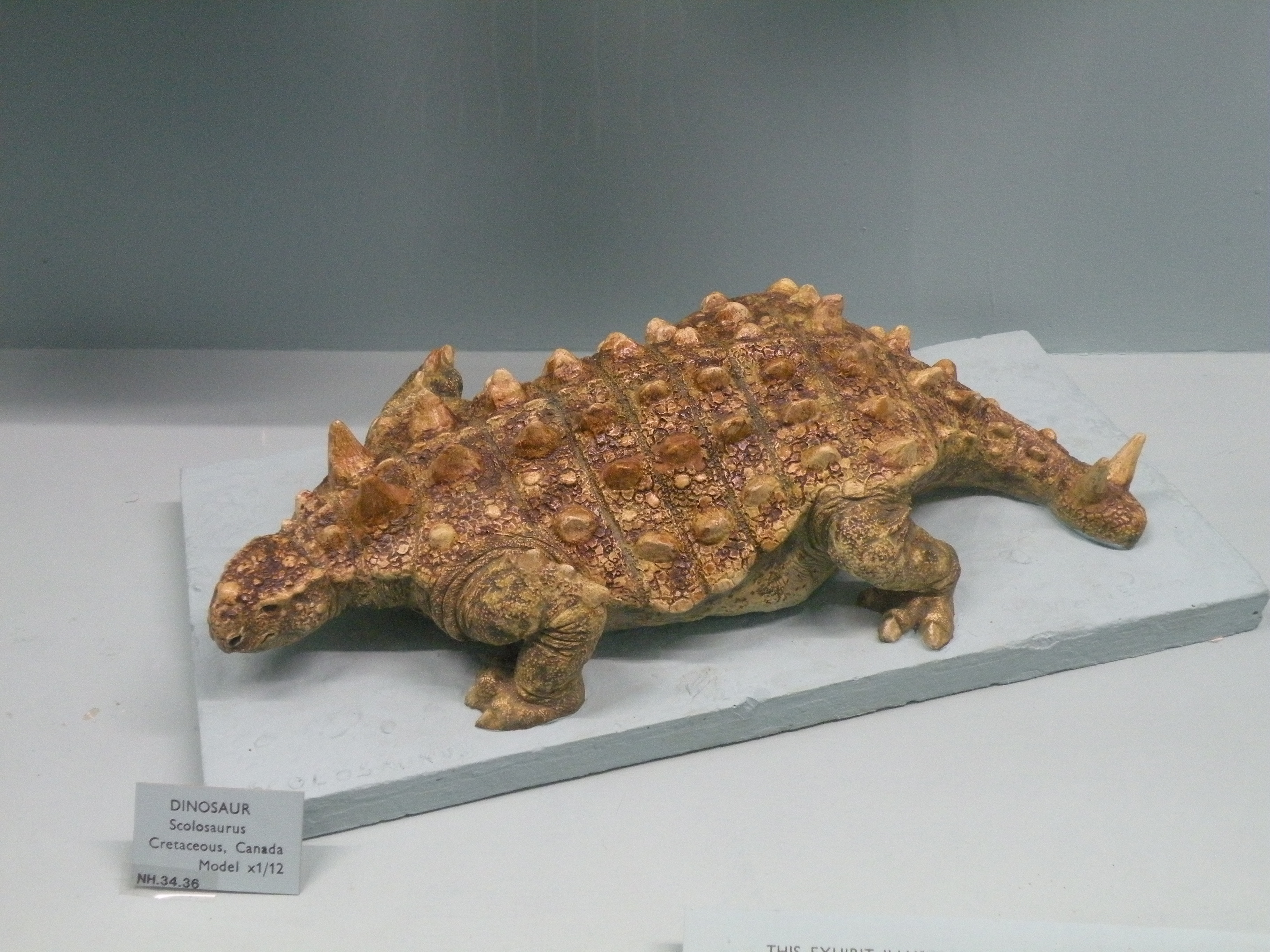 Historical Scolosaurus model Horniman Museum